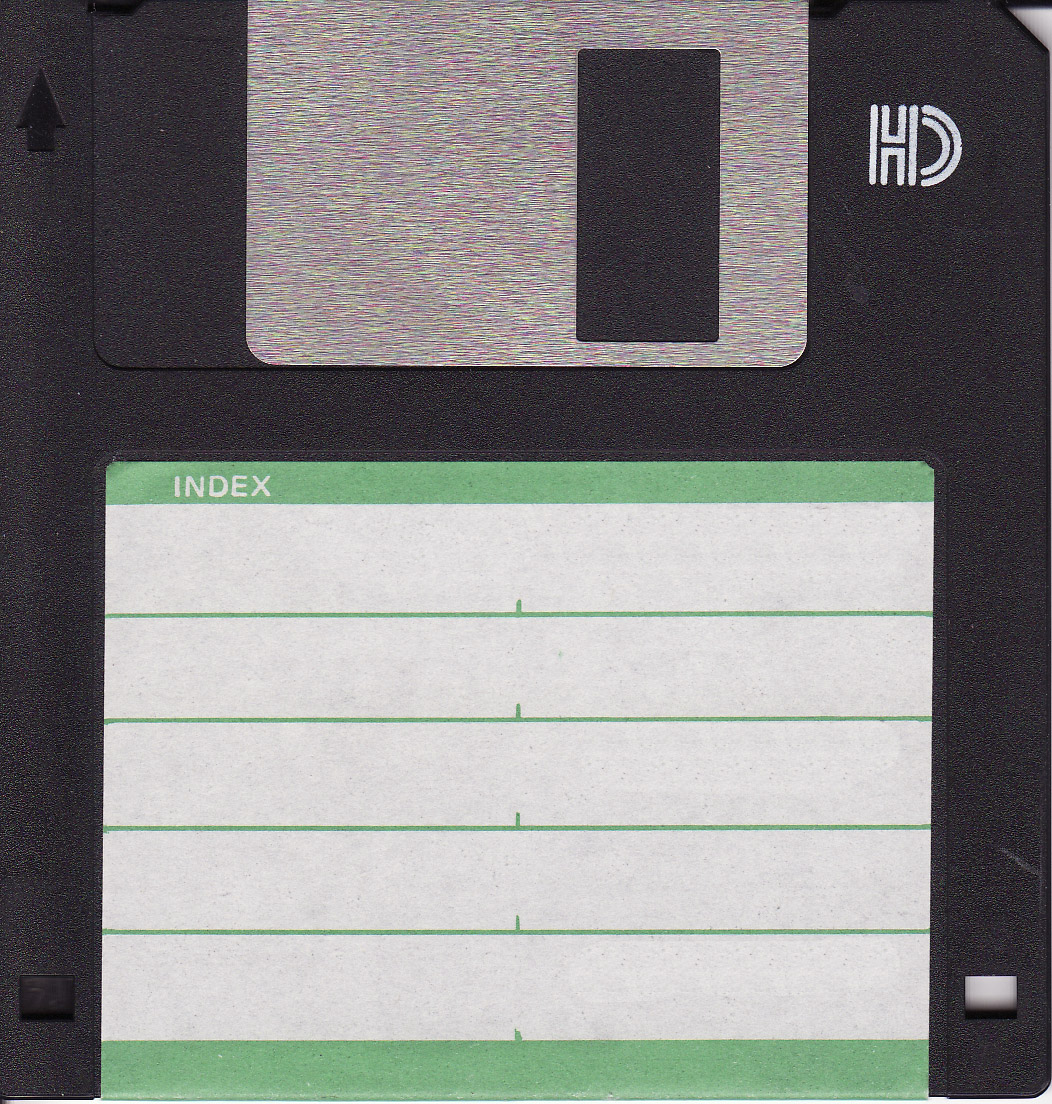 A front scan of a 3.5 inch floppy disk.